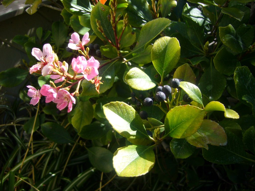 Leaves and fruits of Rhaphiolepis indica aka "Indian Hawthorn"